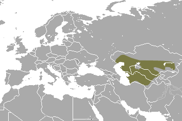 Piebald Shrew (Diplomesodon pulchellum) range